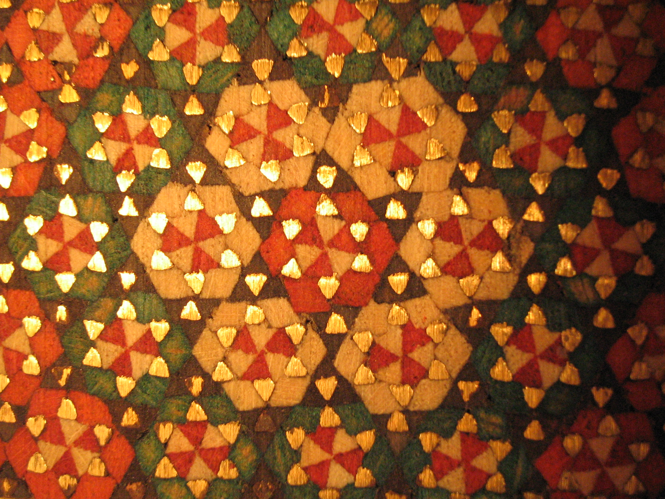 Detail from a Khatam kari marquetry, a typical type of work on wood from Iran.